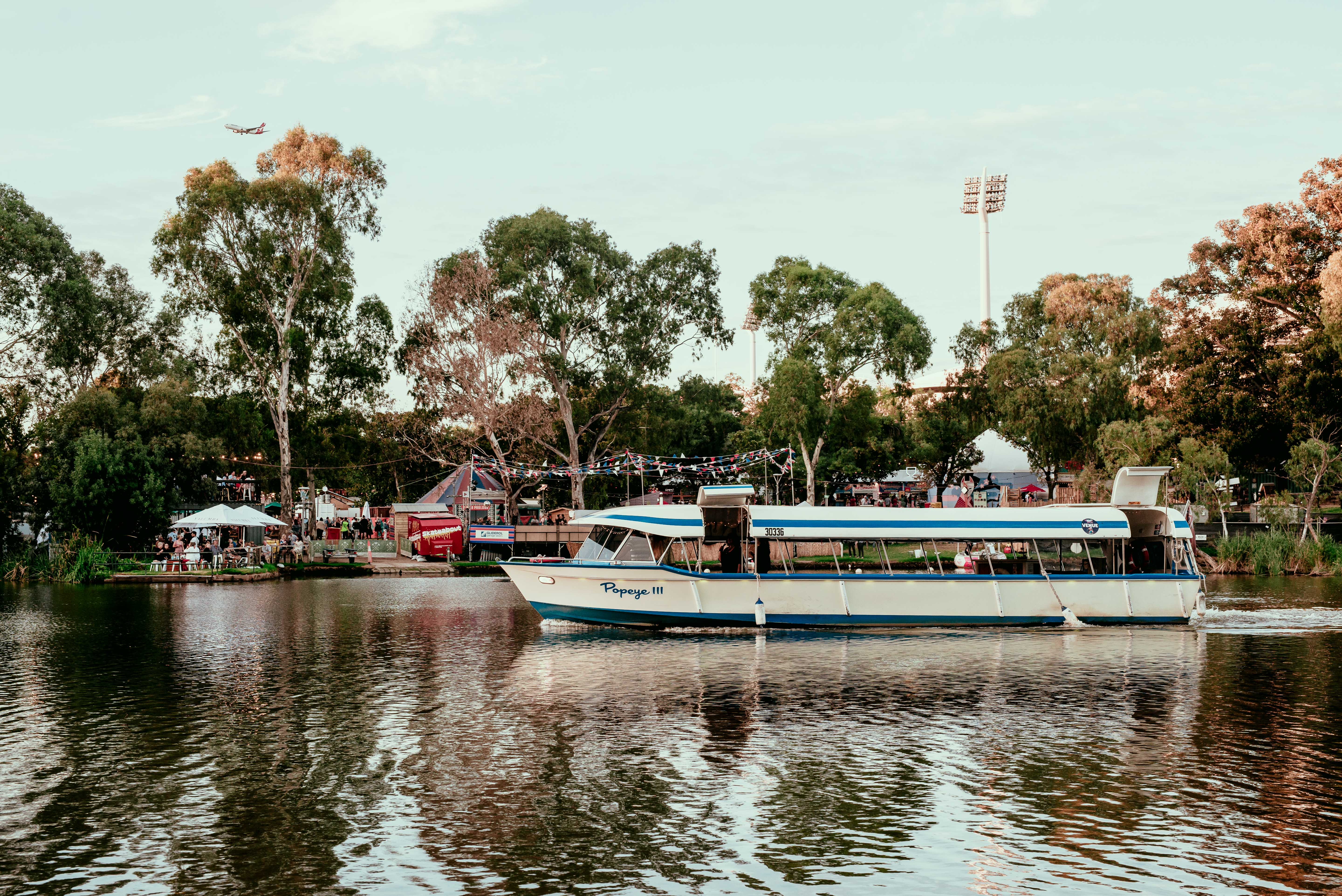 Popeye lll cruising past Royal Croquet Lub in Pinky Flat, March 2018